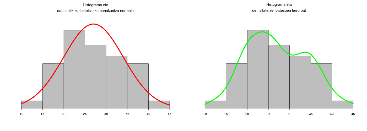 This chart was created with R. Histogram, estimated normal pdf (red) and density estimation (green). Source code: datu1=rnorm(40,22,4) datu1 [1] 12.07930 24.23205 24.22420 18.61956 25.47271 24.76057 17.13244 27.69723 [9] 20.90116 21.33277 20.60566 17.56045 21.60253 19.78497 18.54969 25.88454 [17] 23.29435 19.53775 30.82505 22.27685 13.24867 27.61367 20.69942 20.68274 [25] 20.66159 19.21159 20.08311 25.95496 22.80454 18.89508 28.19135 27.58037 [33] 24.54323 18.76870 23.44803 23.30925 17.82521 22.78719 19.97626 15.28610 datu2=rnorm(40,32,5) datu2 [1] 29.07175 24.00086 39.36396 29.60436 36.79717 35.55459 22.48502 35.60534 [9] 34.06736 43.97922 32.64646 33.80424 36.51349 35.00986 25.48278 26.98489 [17] 31.81420 38.03397 41.53816 33.46317 25.45158 25.45902 33.25066 24.30571 [25] 34.59699 31.87765 35.56252 39.12881 30.74369 26.54277 34.49255 36.97809 [33] 32.23456 35.01120 35.63466 28.65729 30.54426 33.27269 27.59977 26.73819 denak=stack(list(bat=datu1,bi=datu2)) denak$values mean(denak$values) sd(denak$values) png("dentsitate_histograma_0001.png",width=1400,height=500) par(mfrow=c(1,2)) hist(denak$values,col=c("gray"),prob=T,ylim=c(0,0.06),yaxt="n",ylab="",xaxt="n",xlab="",main="") axis(1,at=seq(10,45,by=5),pos=0) titulu1=expression(atop(Histograma~"eta",datuetatik~zenbatetsitako~banakuntza~normala)) curve(dnorm(x, mean =27.02, sd =7.04), add = T,col="red",lwd=5) title(titulu1) hist(denak$values,col=c("gray"),prob=T,yaxt="n",ylim=c(0,0.06),ylab="",xaxt="n",xlab="",main="") axis(1,at=seq(10,45,by=5),pos=0) titulu2=expression(atop(Histograma~"eta",dentsitate~zenbatespen~lerro~bat)) title(titulu2) lines(density(denak$values, na.rm = T, from = 10, to = 45),col=c("green"),lwd=5) dev.off